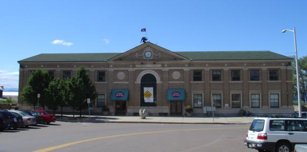 Description: Burlington Union Station Creator/Photographer: User:Solarapex Uploader: User:Solarapex Date: 10 September 2006 Other Versions: none License status: Creative Commons Attribution-Sharealike Signature: Solarapex 01:15, 9 October 2006 (UTC)